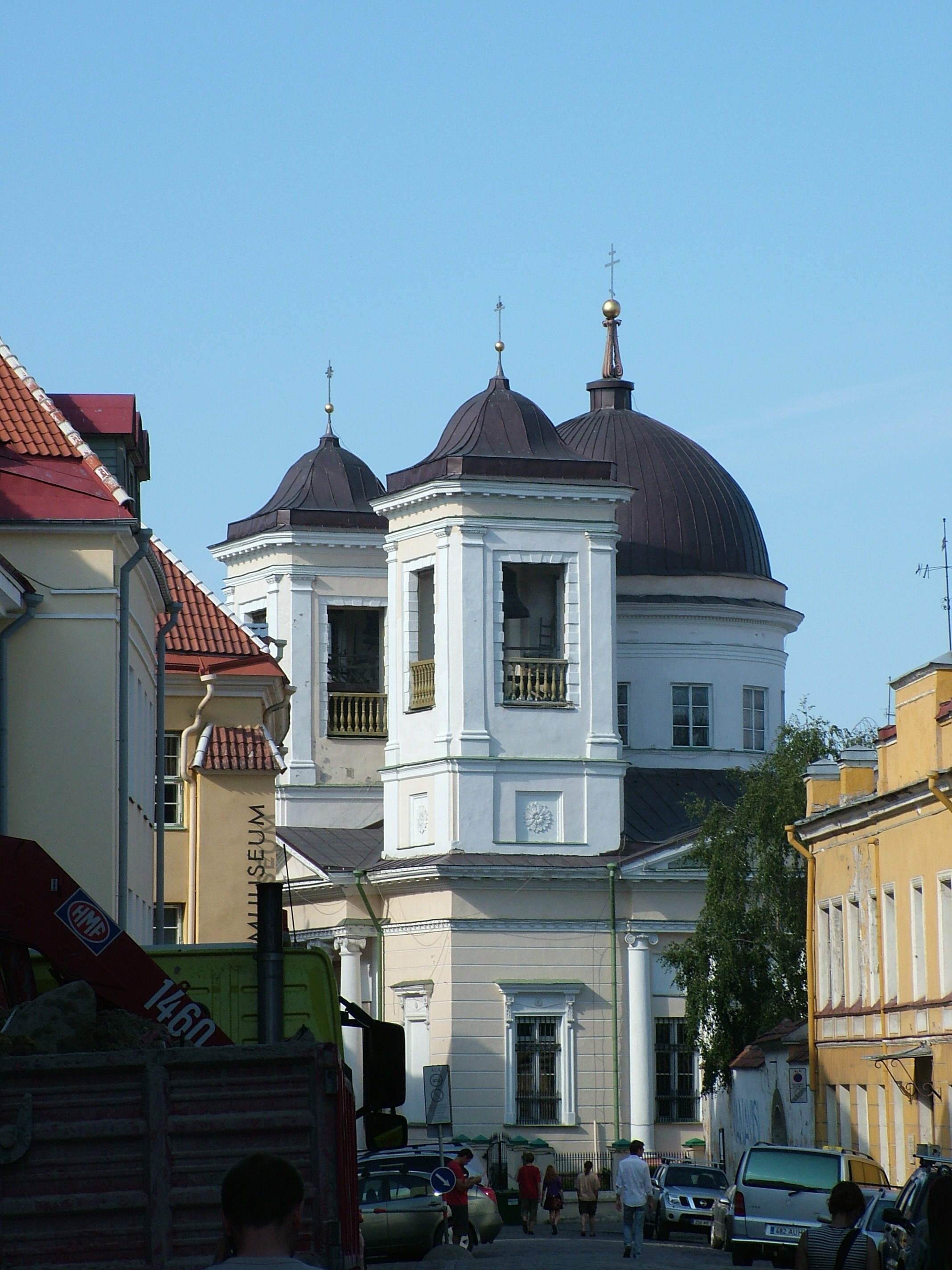 orthodox St. Nicholas Church in Tallinn, Estonia.